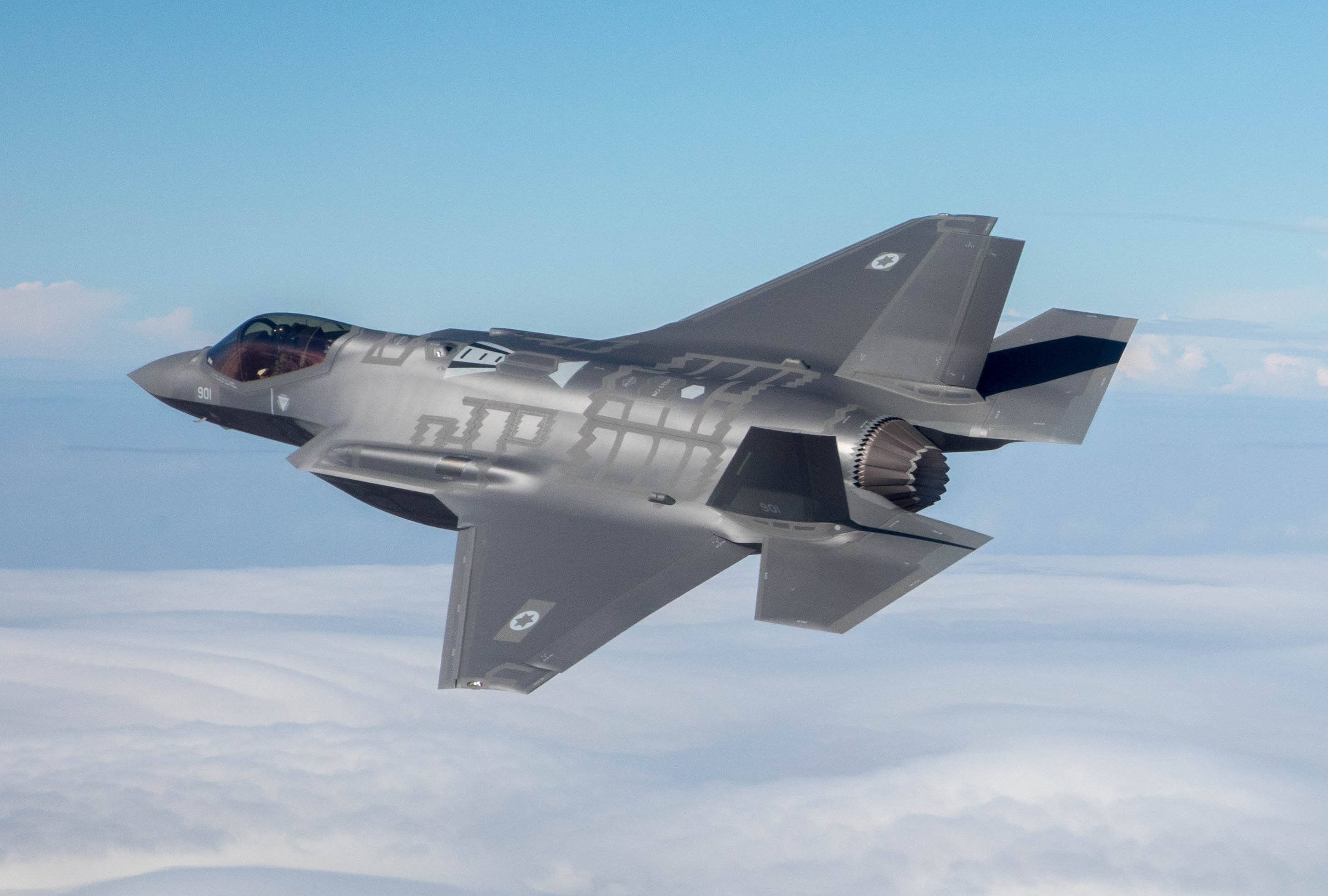 The "Adir" jets first flight in Israel. Pictured: "Adir" jet and F-16I "Sufa". Photo by: Maj. Ofer